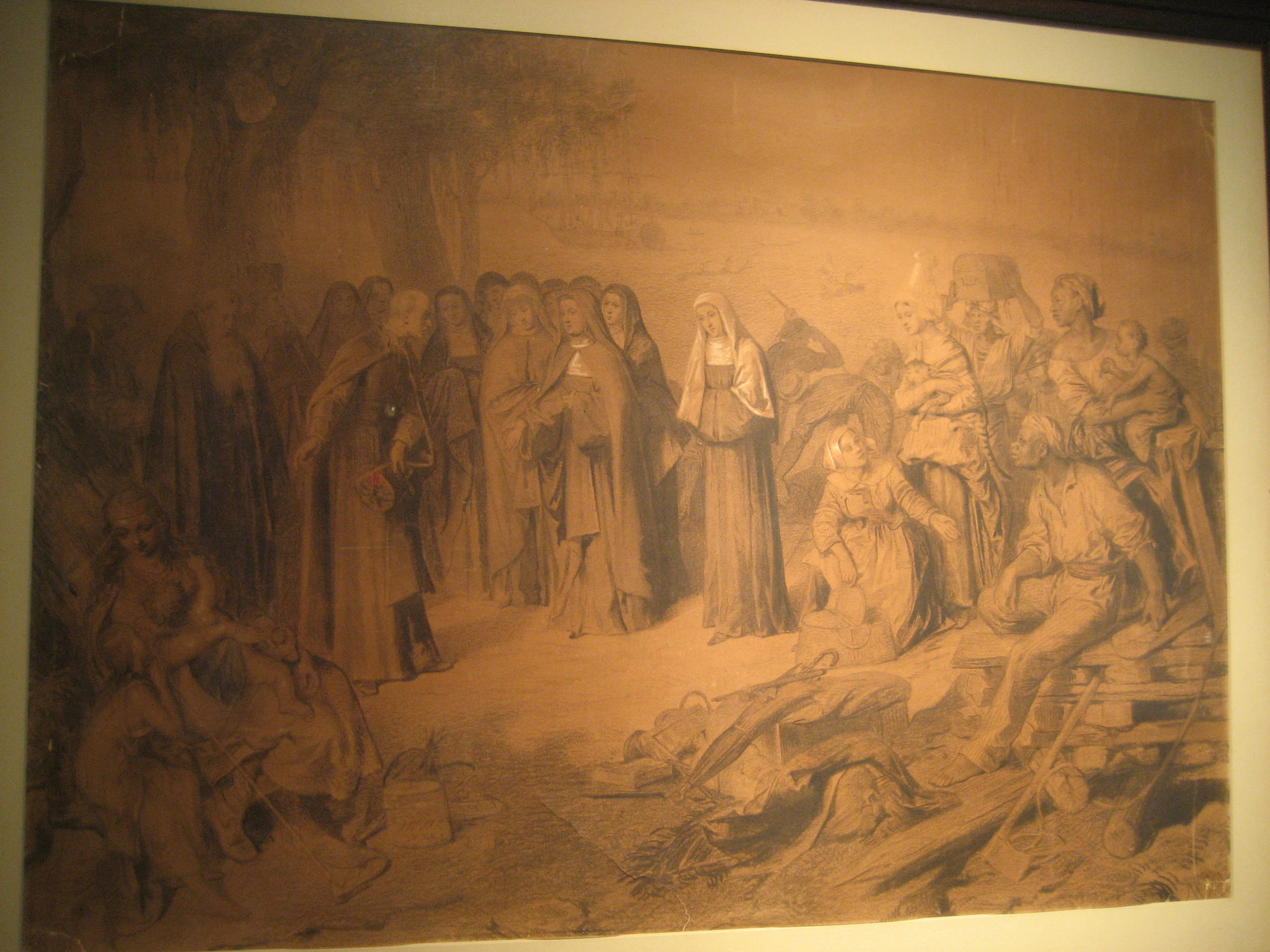 "The Arrival of the Ursulines in America on August 7, 1727". Depiction of arrival of Ursulines Nuns from France at New Orleans. Charcoal artwork on display at the Old Ursulines Convent complex, French Quarter, New Orleans. Unknown 19th century artist.